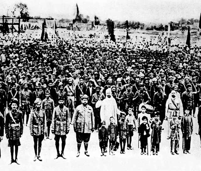 Followers of the Khudai Khidmatgar (Servants of God). Also known as "Red shirts" or "surkh posh".